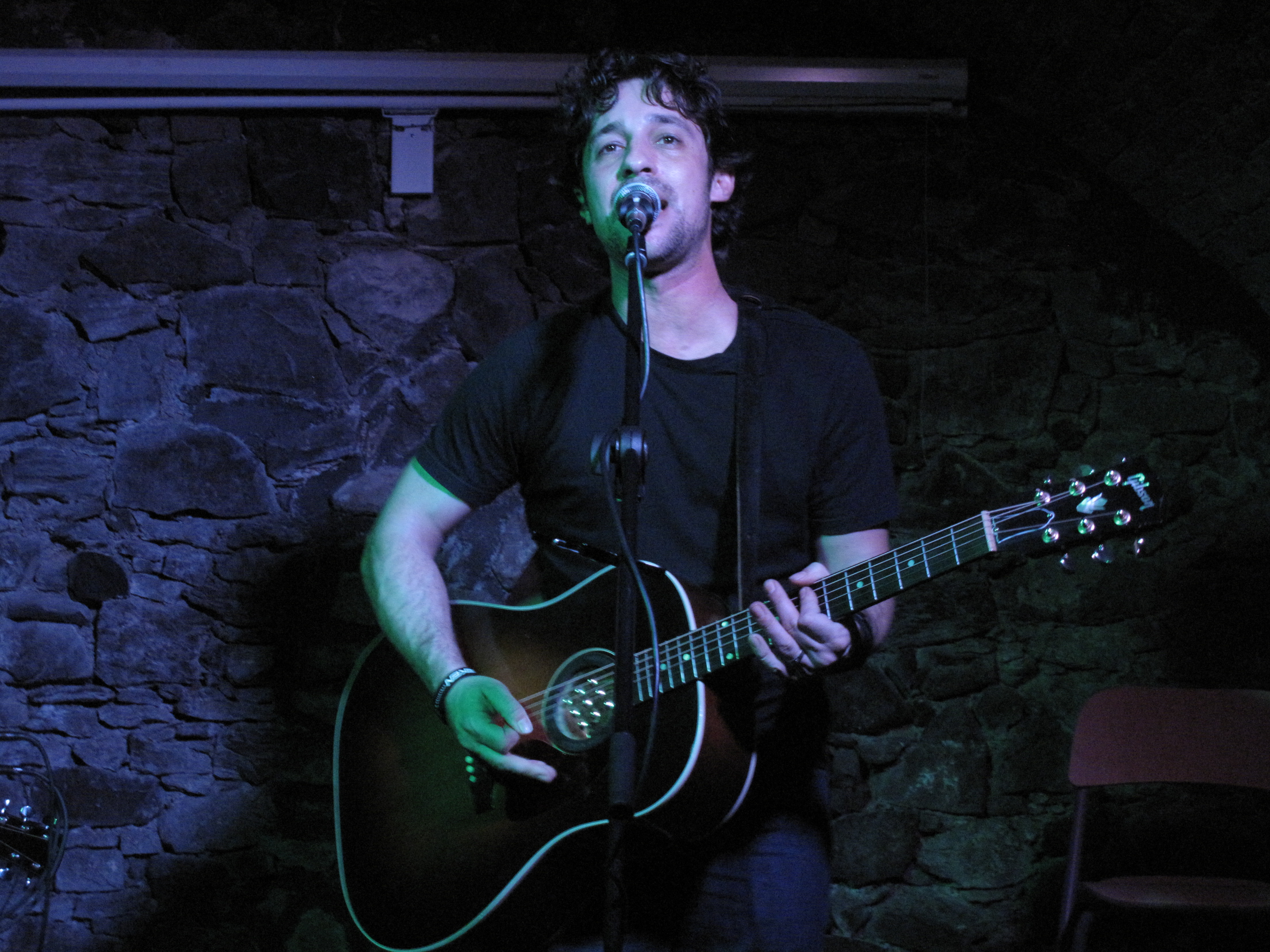 TI Nicholas in Kadaň, Czech Republic, 2011